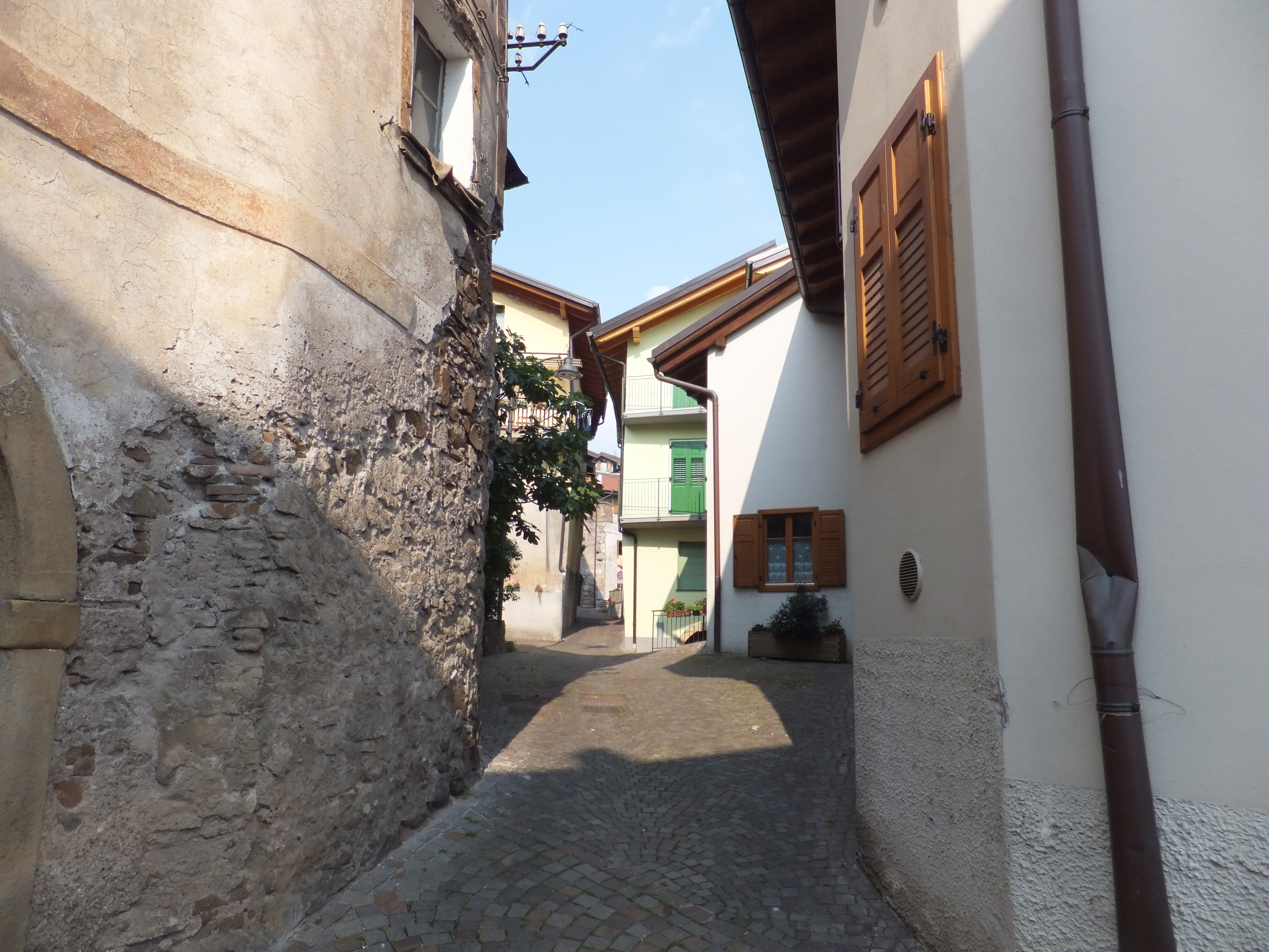 Lisignago (Trentino, Italy) - Glimpse